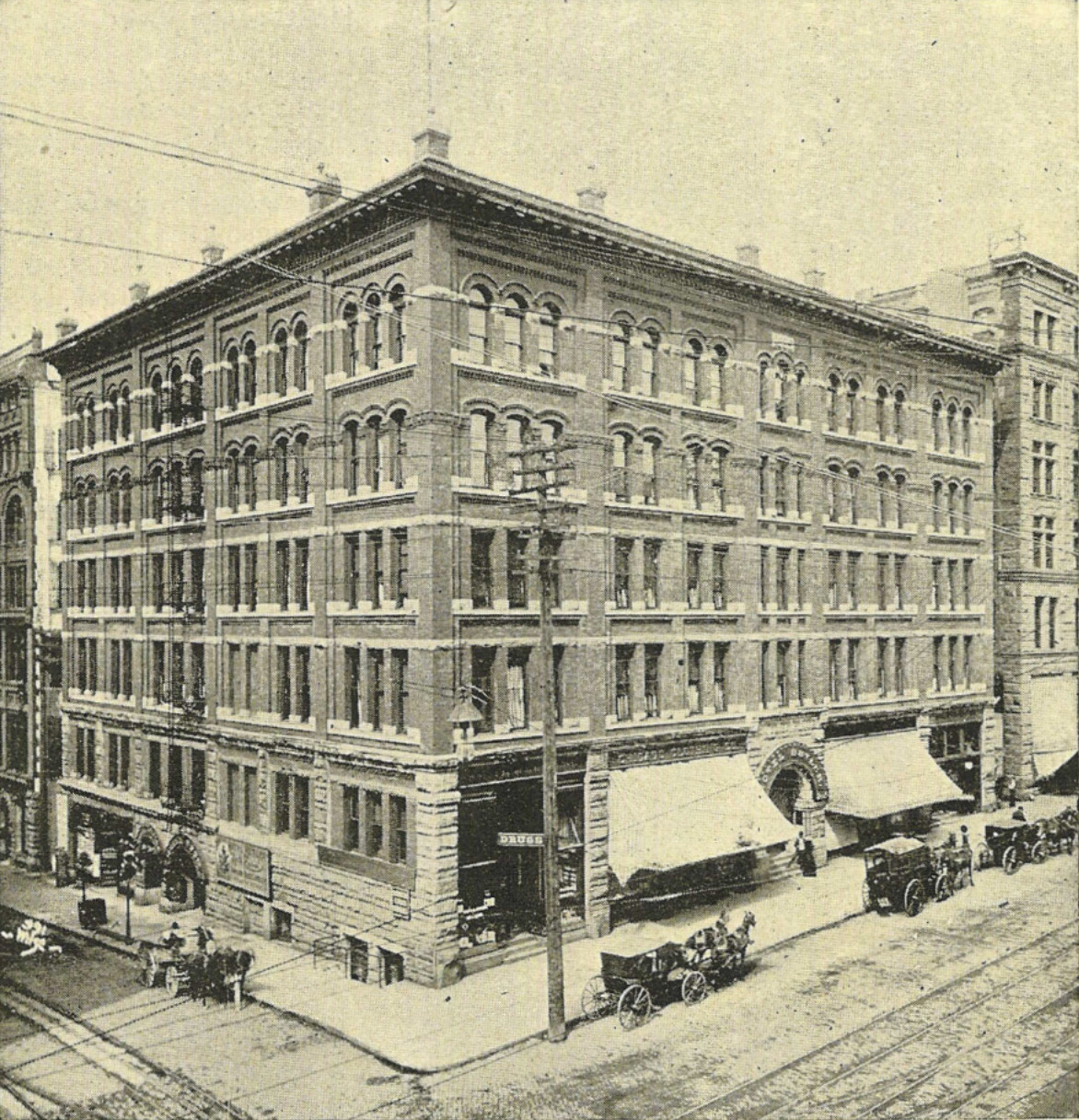 Page 146 of brochure Seattle and the Orient (1900). This page includes text plus a photo captioned "The Hotel Butler—Hamm & Schmitz, proprietors." A sign on the corner store says "Drugs". A sign over the awning of the next store says "Chicago Clothing Co." The arch over the main entrance says "Hotel Butler". The lower two stories of the building at the northwest corner of Second and James still stand as of 2007; the upper portion was lost in the 1930s; it has since been replaced by a multi-storey parking lot. See Summary for 601 2nd AVE / Parcel ID 0939000155, Seattle Department of Neighborhoods for more details.